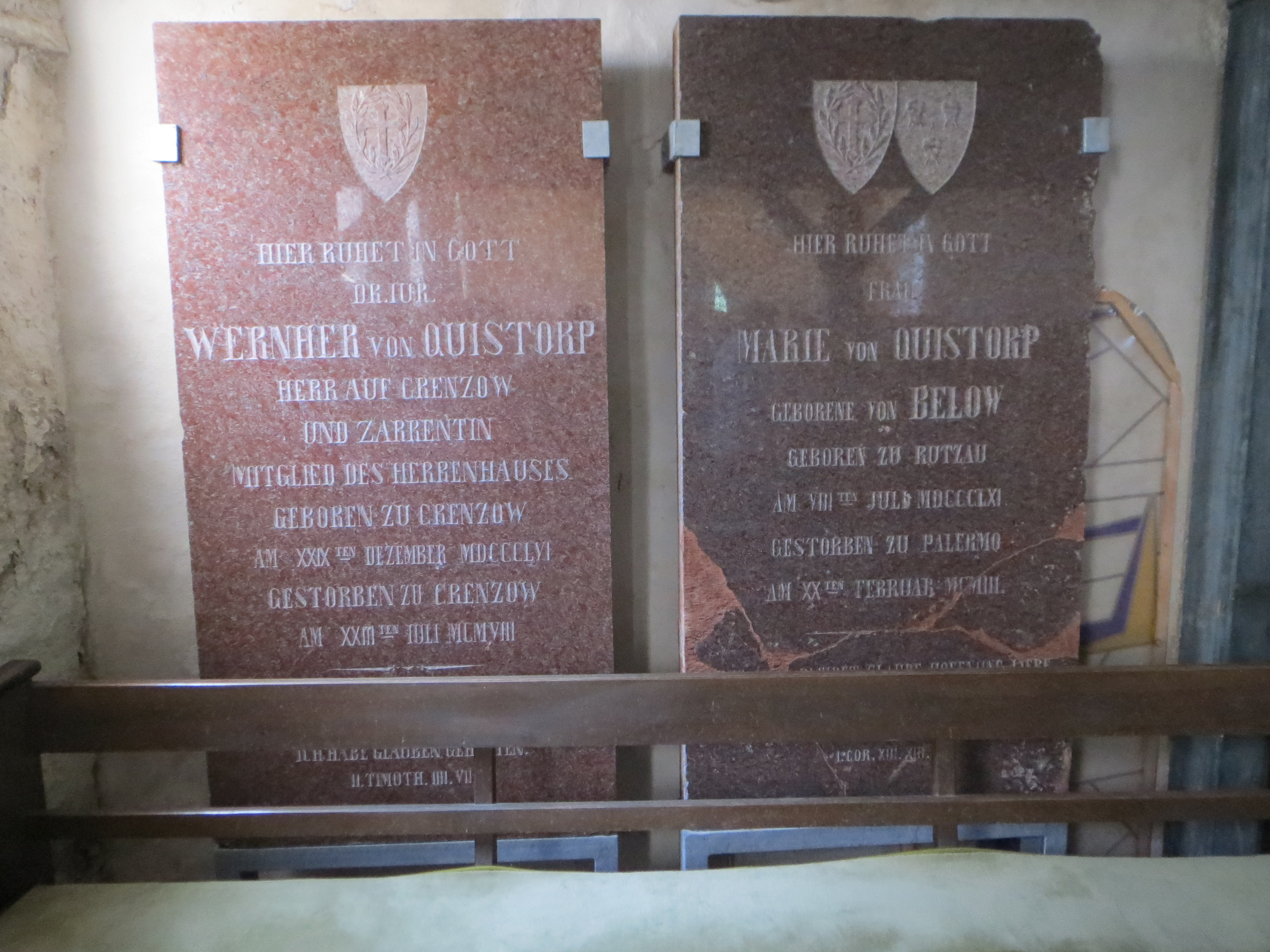 Church in Rubkow